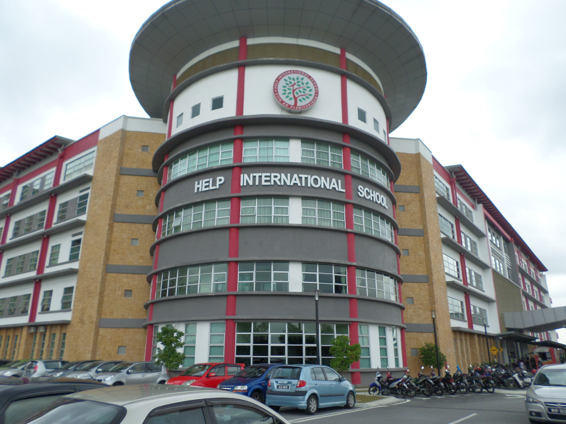 HELP International School, Shah Alam, Petaling, Selangor, Malaysia